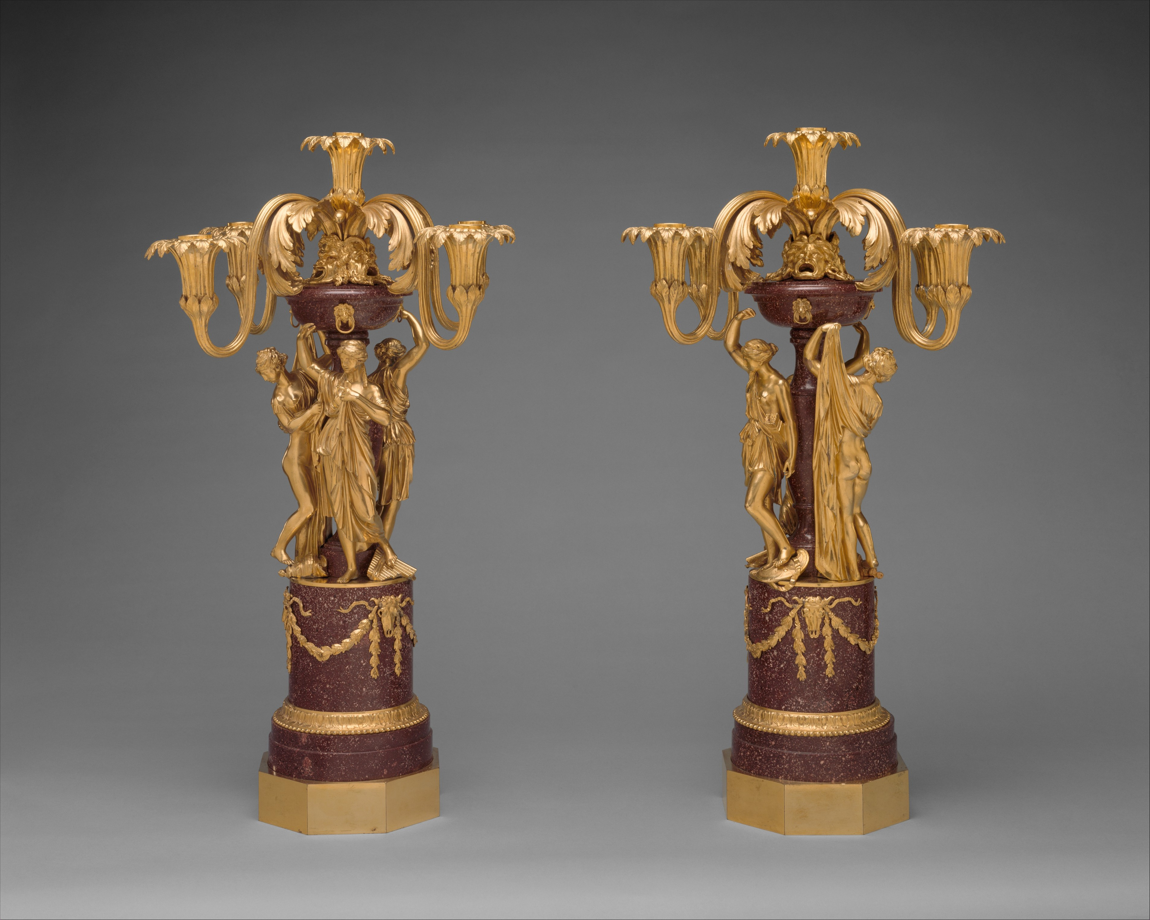 Italian, Rome; Candelabra; Metalwork-Gilt Bronze